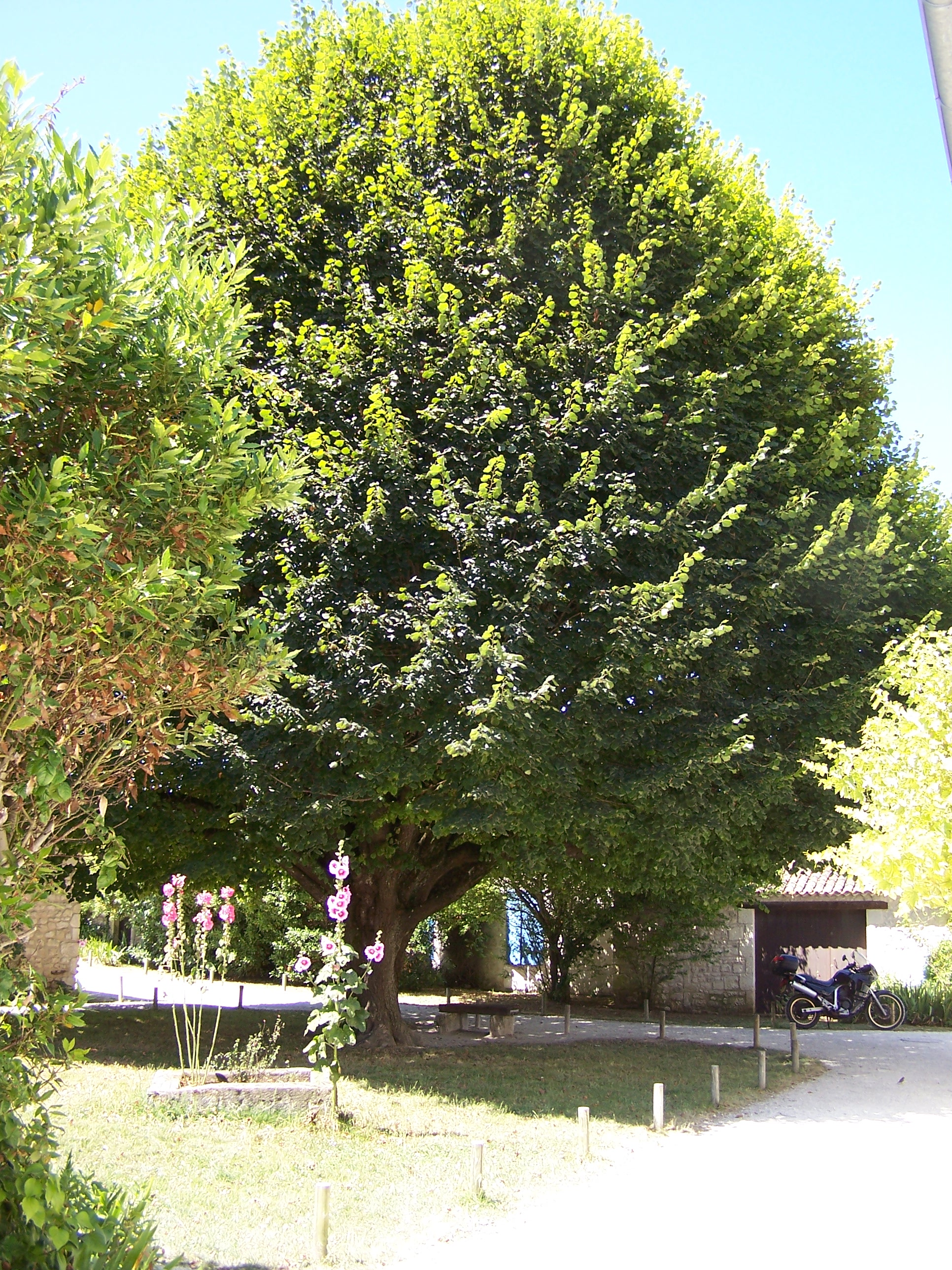 Linden on place de la Priauté in Talmont-sur-Gironde (Charente-Maritime, France)